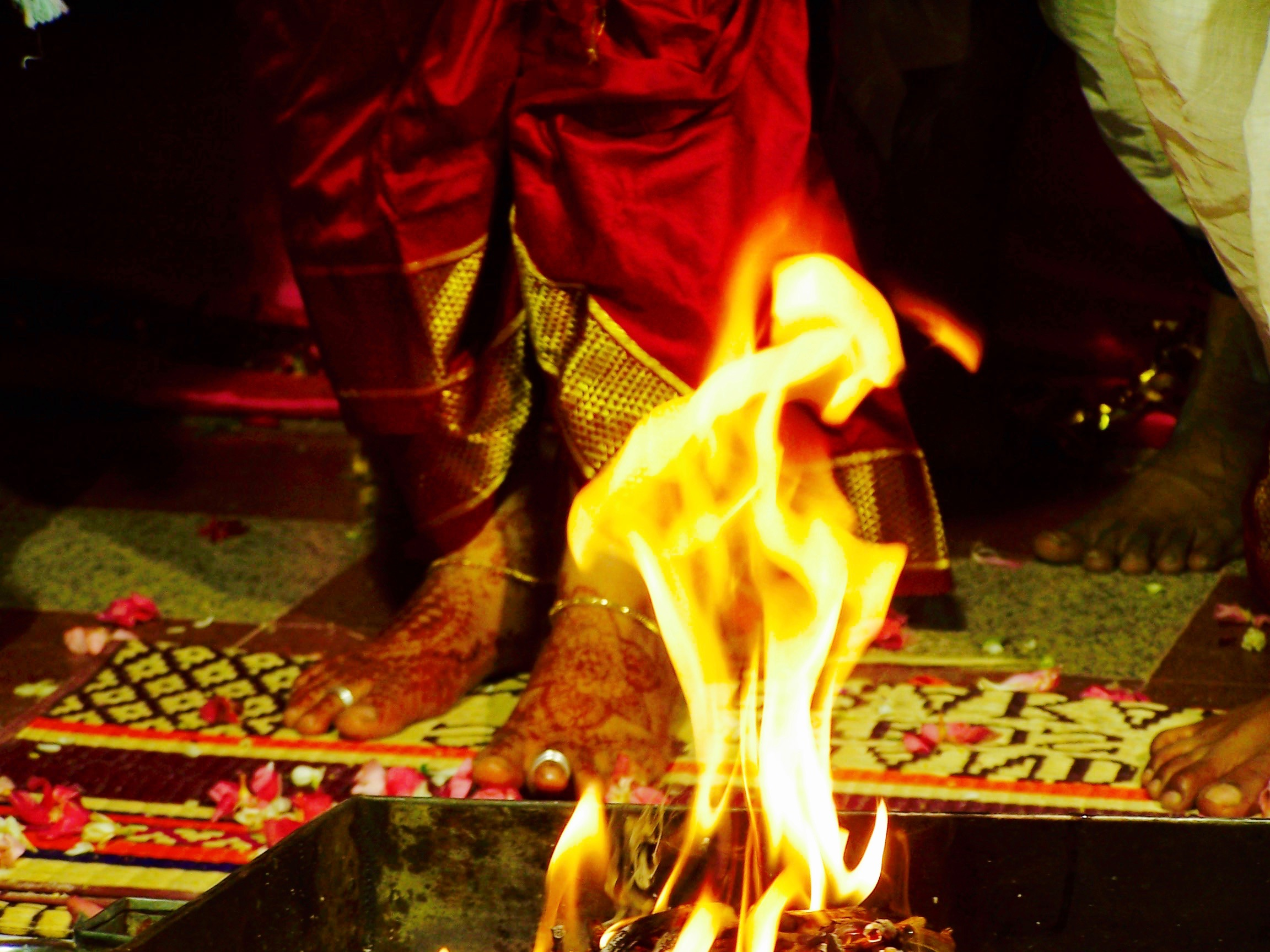 A Hindu wedding. The agni (fire) sybolizes the purity of the marriage. The bride is in red saree. Her about-to-become husband is standing next to her in white ritual clothing. India